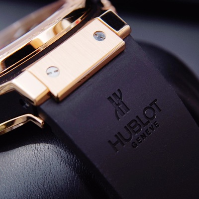 A Hublot watch with its rubber band